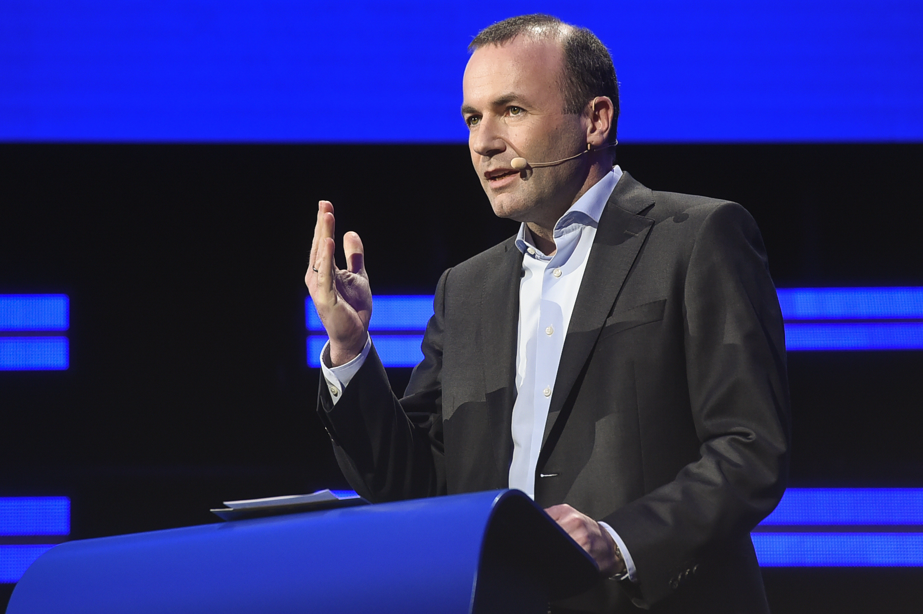 The live debate will be moderated by TV anchors Markus Preiss (ARD WDR), Emilie Tran-Nguyen (France Télévisions) and Annastiina Heikkilä (Yle) and broadcast by the EBU's public service media members and others throughout Europe. TellEurope & watch the full video here @ Speaking order for lead candidates is: Nico CUÉ, European Left (EL) Ska KELLER, European Green Party (EGP) Jan ZAHRADIL, Alliance of Conservatives and Reformists in Europe (ACRE) Margrethe VESTAGER, Alliance of Liberals and Democrats for Europe (ALDE) Manfred WEBER, European People’s Party (EPP) Frans TIMMERMANS, Party of European Socialists (PES) This photo is free to use under Creative Commons license CC-BY-4.0 and must be credited: "CC-BY-4.0: © European Union 2019 – Source: EP". No model release form if applicable. For bigger HR files please contact: webcom-flickr(AT)